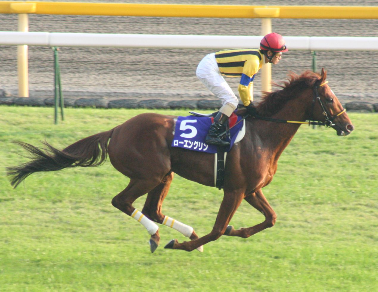 Lohengrin(Tokyo Racecourse)